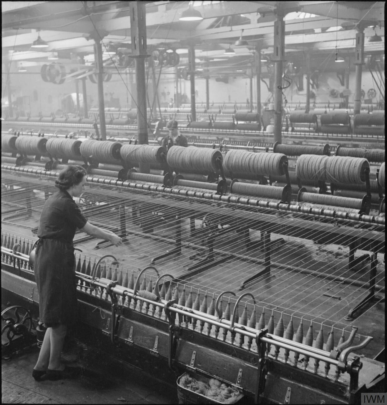 Old Rags Into New Cloth- Salvage in Britain, April 1942 A textile worker stands at the spinning mule. The wooden rollers are transferred from the condenser to the spinning mule which is the means of twisting and stretching, the soft threads convert into a firm strong yarn, which then ready on bobbins (foreground) from the weft and warp of the weaving mill.